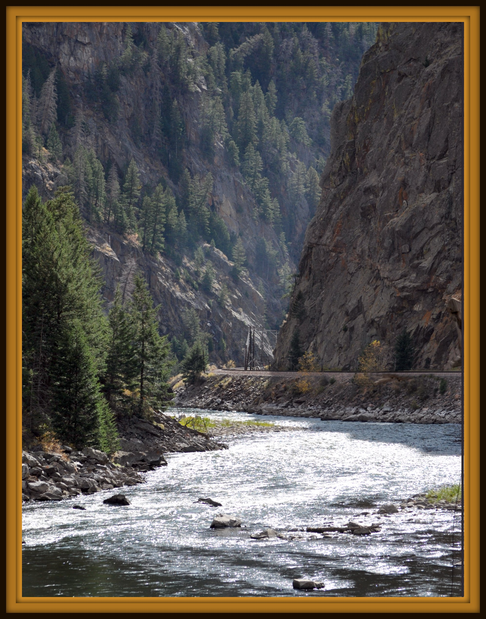 This is the East End of Gore Canyon as the train continues East through Kremmling